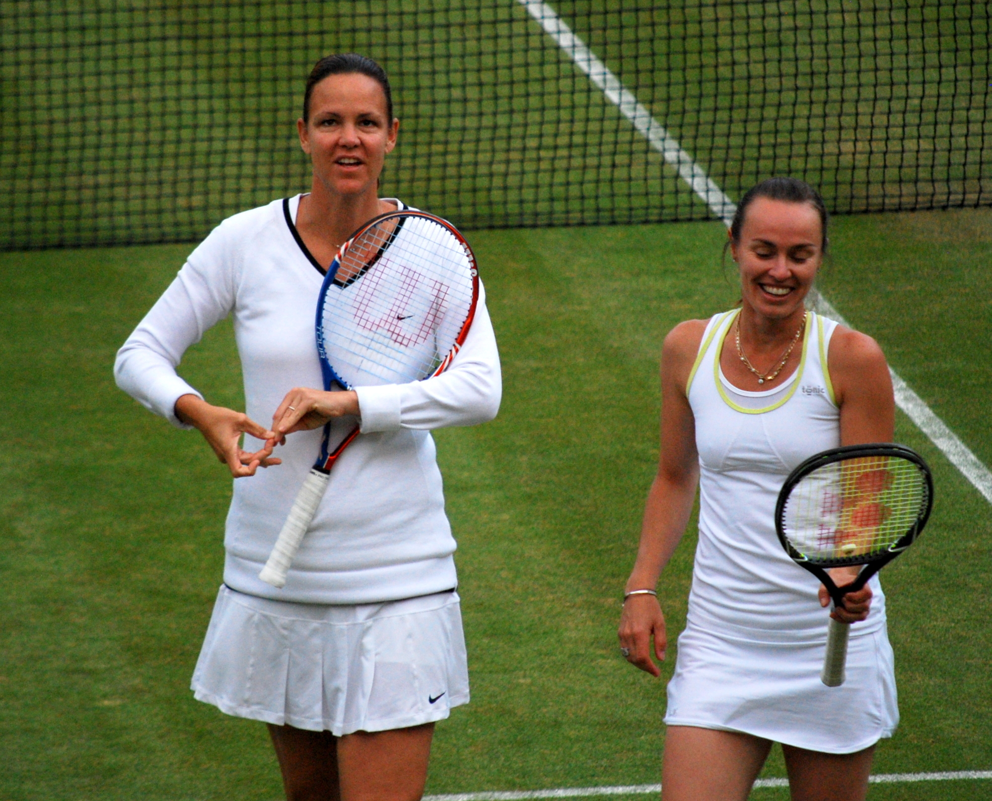 Ladies Invitation Doubles. Lindsay Davenport & Martina Hingis defeated Natasha Zvereva & Gigi Fernandez 6-2 6-2, and went on to win the title. Day 9 of Wimbledon 2011.